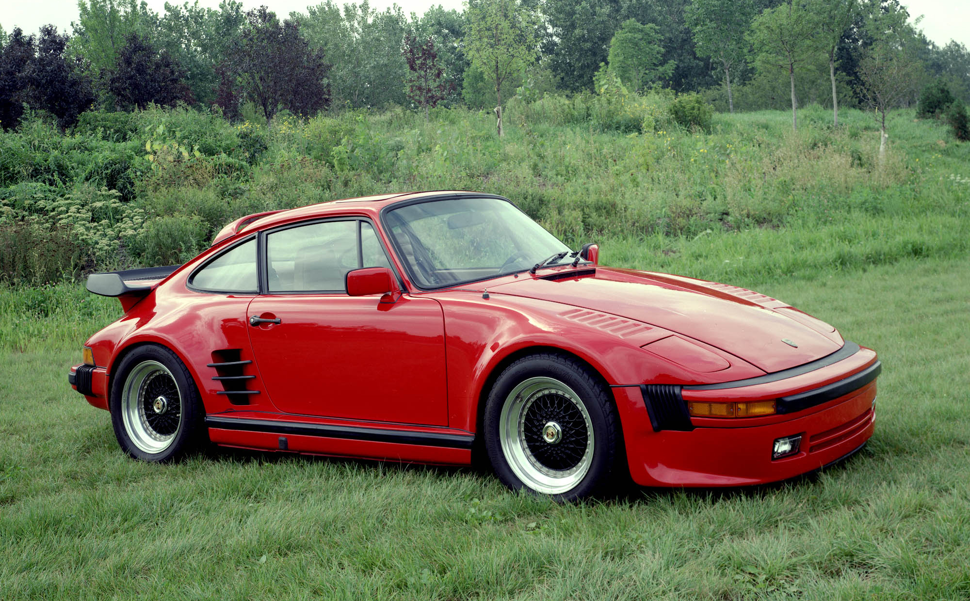 A 1982 Porsche 911SC was modified into a "Flachbau" ("slantnose") by Camillo & Domenico Scaduto of Carrozzeria Italia at their restoration shop in Escondido, California. This type of modification was first offered by Porsche for their 930 Turbo under a special program since 1981. The front end was restyled after the racing 935s. According to some sources, Porsche built 948 units. Domenico Scaduto and his son Camillo Scaduto handcrafted the "Flachbau" as Porsche did with steel fenders before the advent of lesser quality fiberglassed modifications by other shops. Yet, over the years, they were able to build 87 units in Southern California before the style faded. The wheels on this particular car are OZ/MSW Vega, 3 piece.